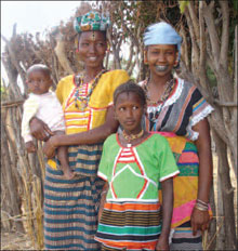 Tostan participants are often mothers. As with traditional beliefs, information on health and human rights can be passed from one generation to the next.